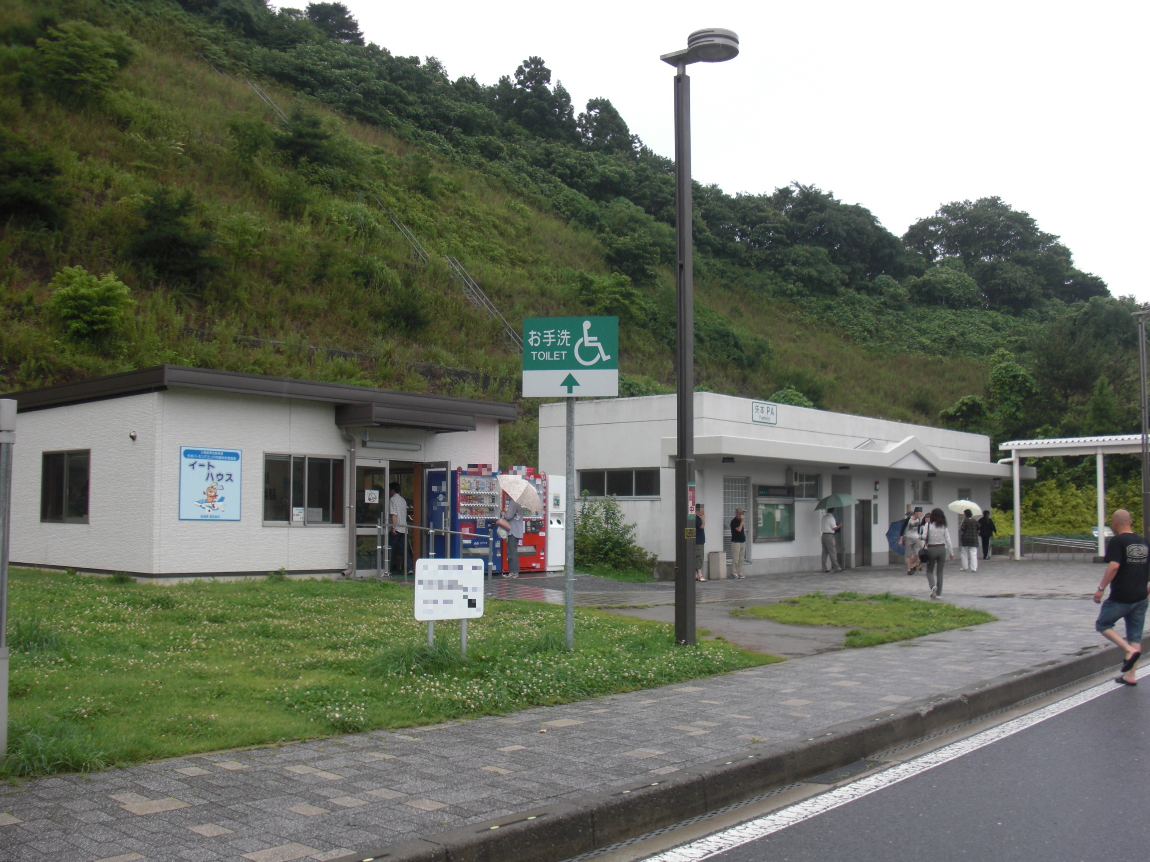 Yamoto Parking Area on the Sanriku Expressway northbound line in Higashimatsushima City, Miyagi Prefecture, Japan